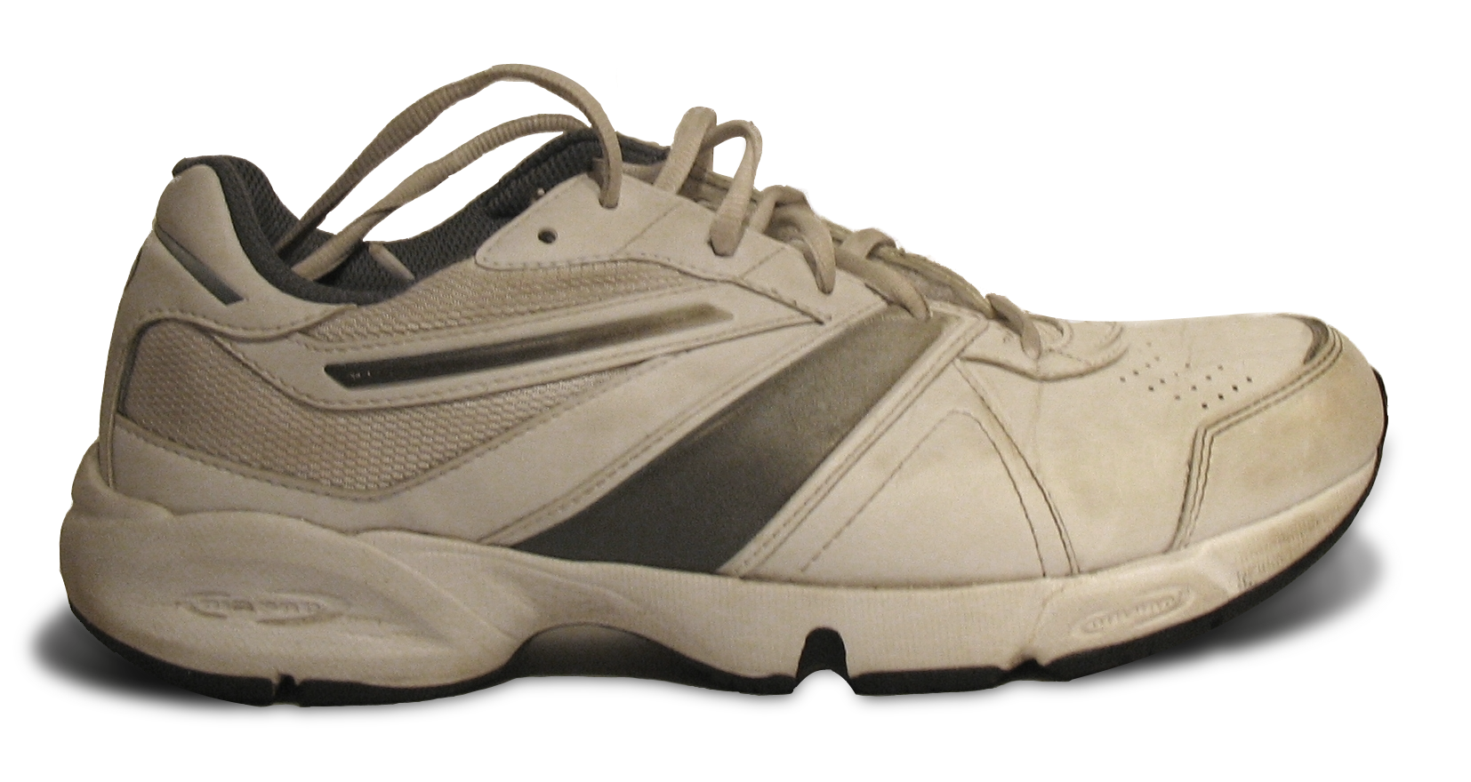 Photograph of a sport shoe. The logo have been removed.